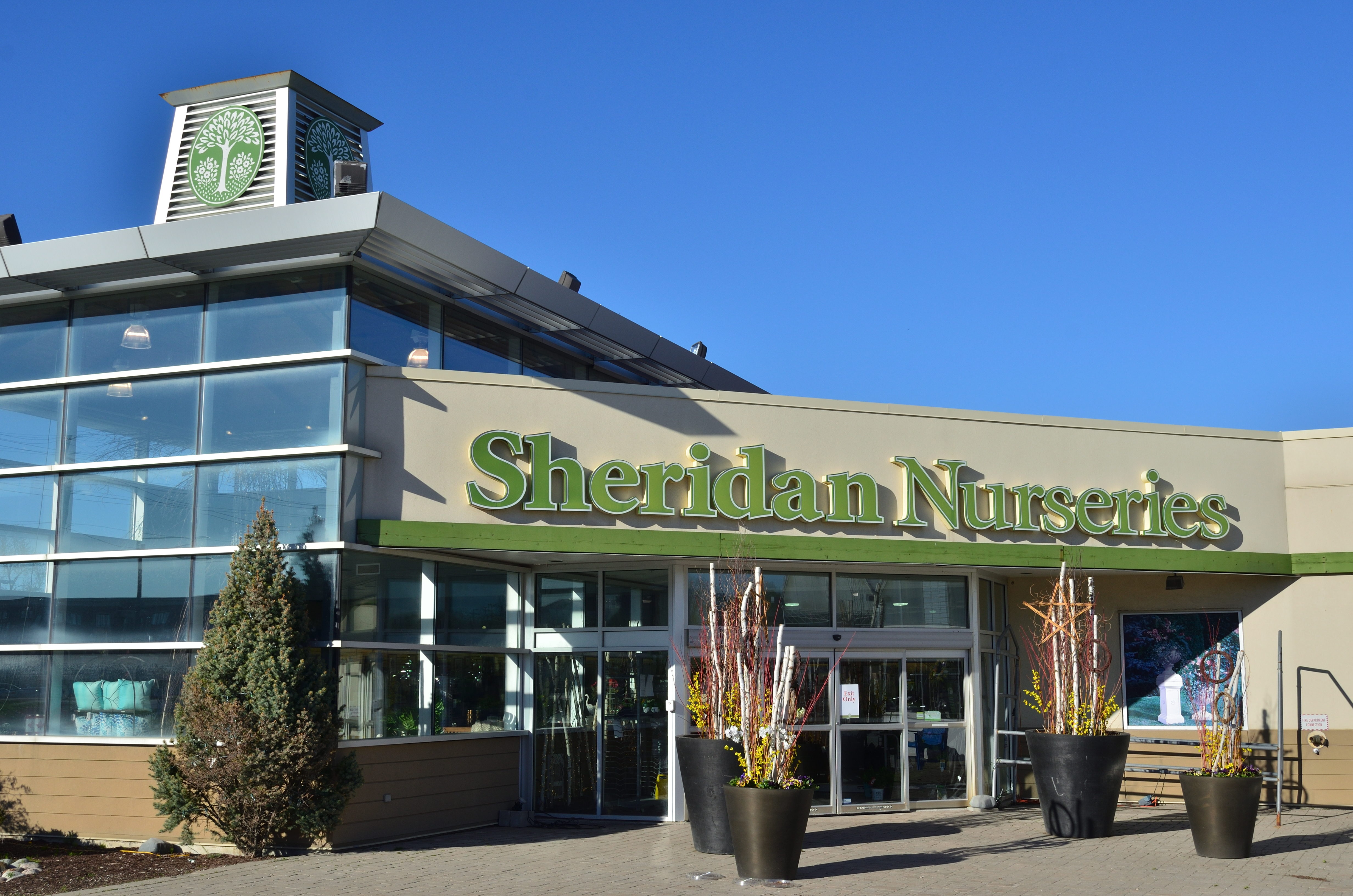 Sheridan Nurseries - 4077 Highway 7, Markham